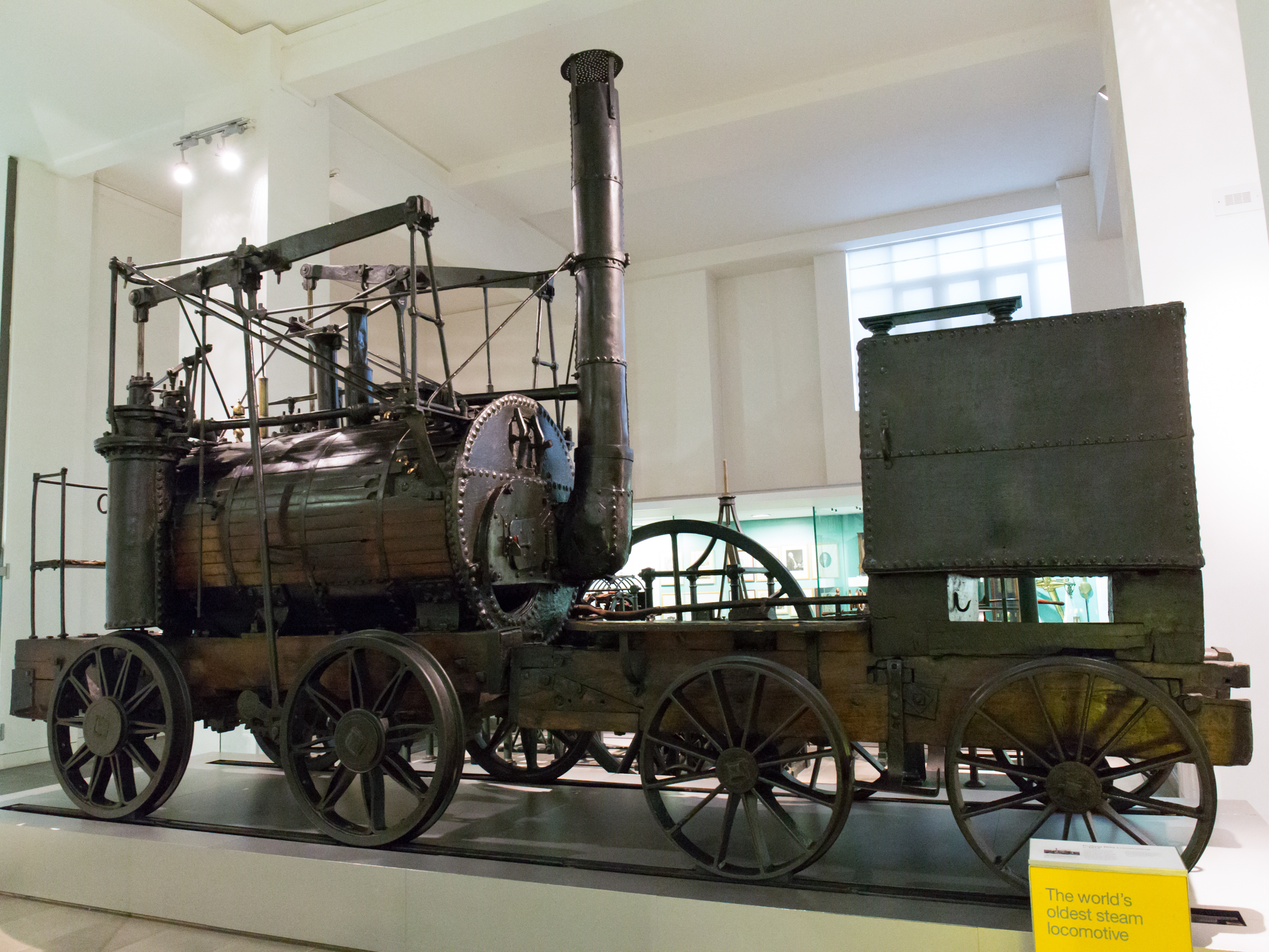 Puffing Billy